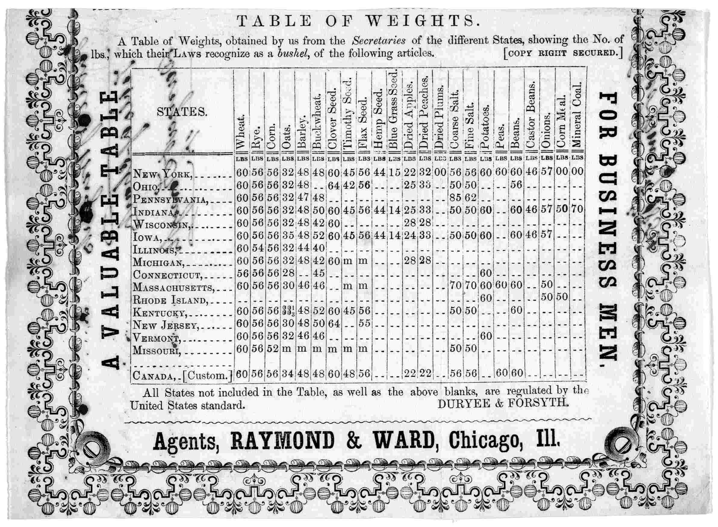 "Table of weights. A table of weights obtained by us from the secretaries of the different states, showing the no. of lbs. which their laws recognize as a bushel of the following articles ... Agents, Raymond & Ward, Chicago, Ill. [c. 1854].